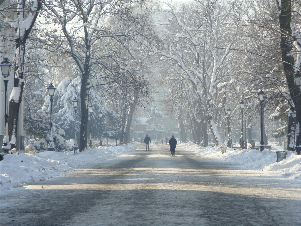 Gradski Park in Zemun, Serbia. Photo taken in December 2009.